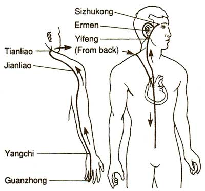 Triple warmer